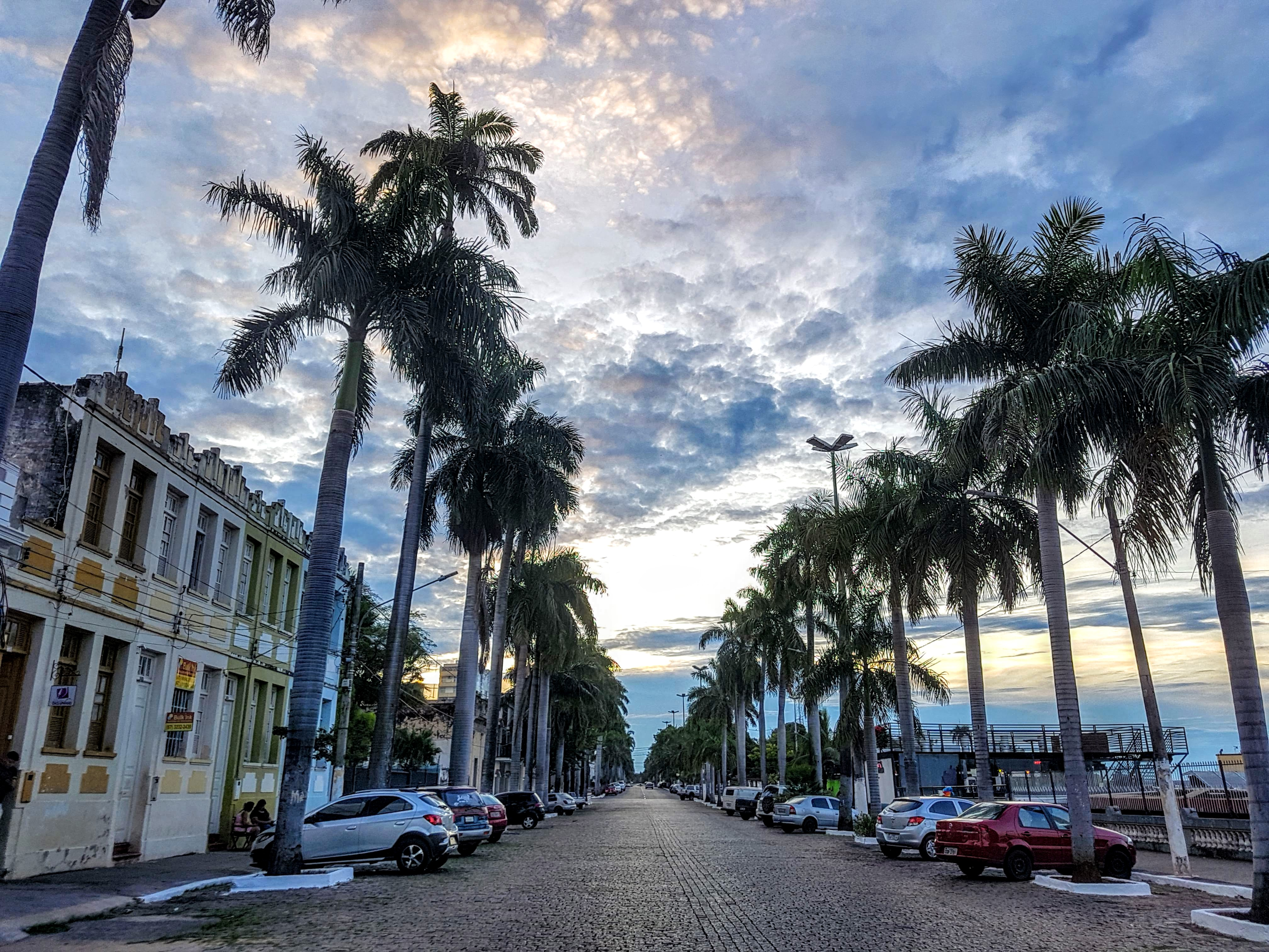 View of Avenida General Rondon, overlooking the riverfront in Corumbá, Mato Grosso do Sul, Brazil. This palm-lined street is the scene of the town's annual carnaval celebration.